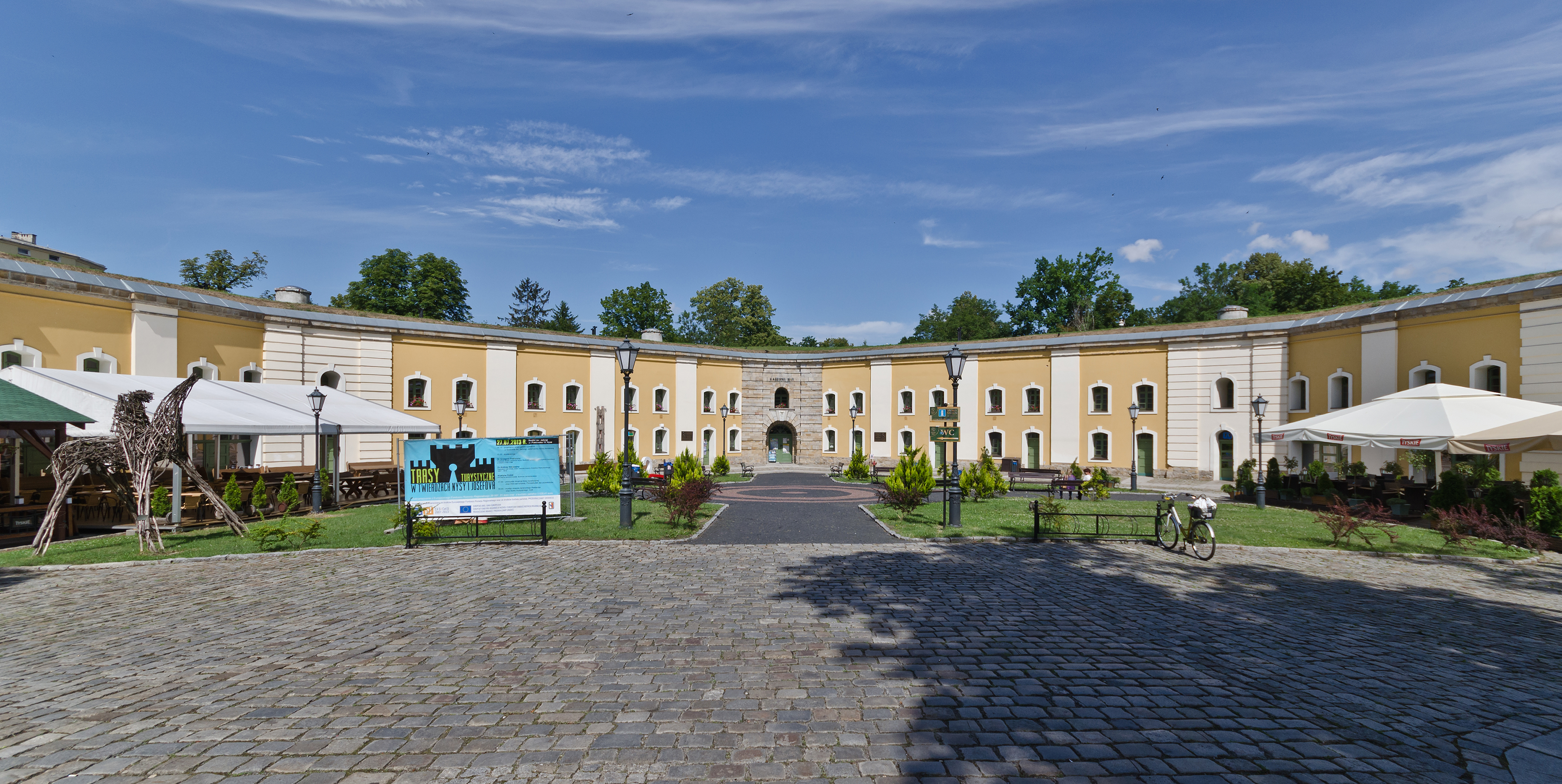 St. Jadwiga Bastion in Nysa